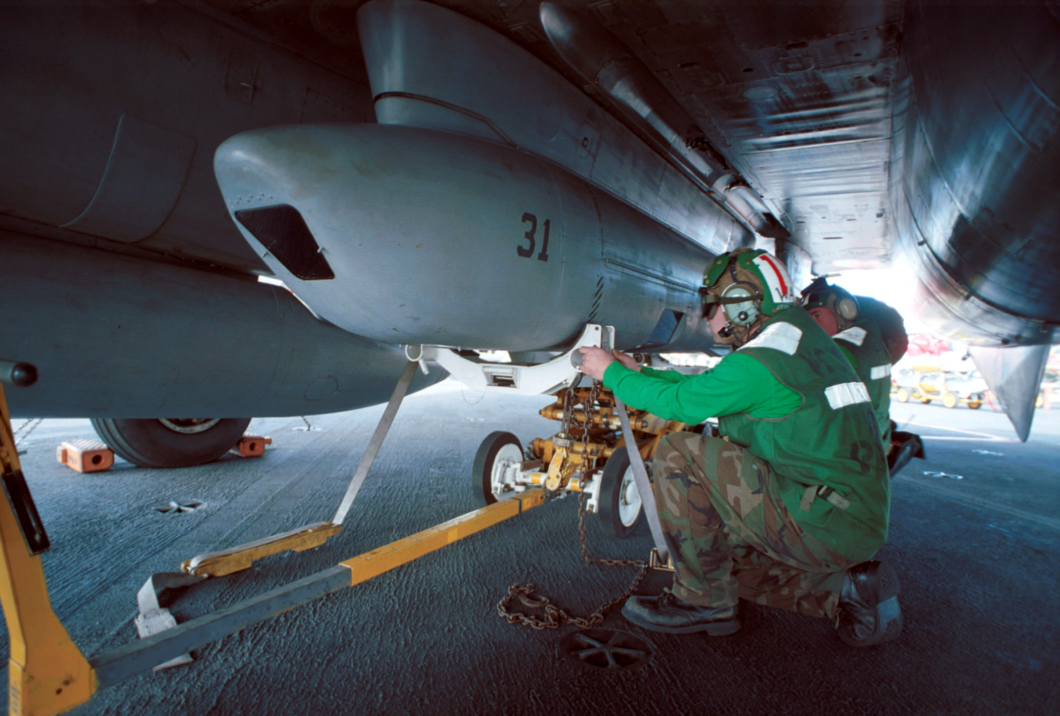 A Tactical Air Reconnaissance Pod System (TARPS) pod gets removed from an F-14 "Tomcat" aboard USS George Washington